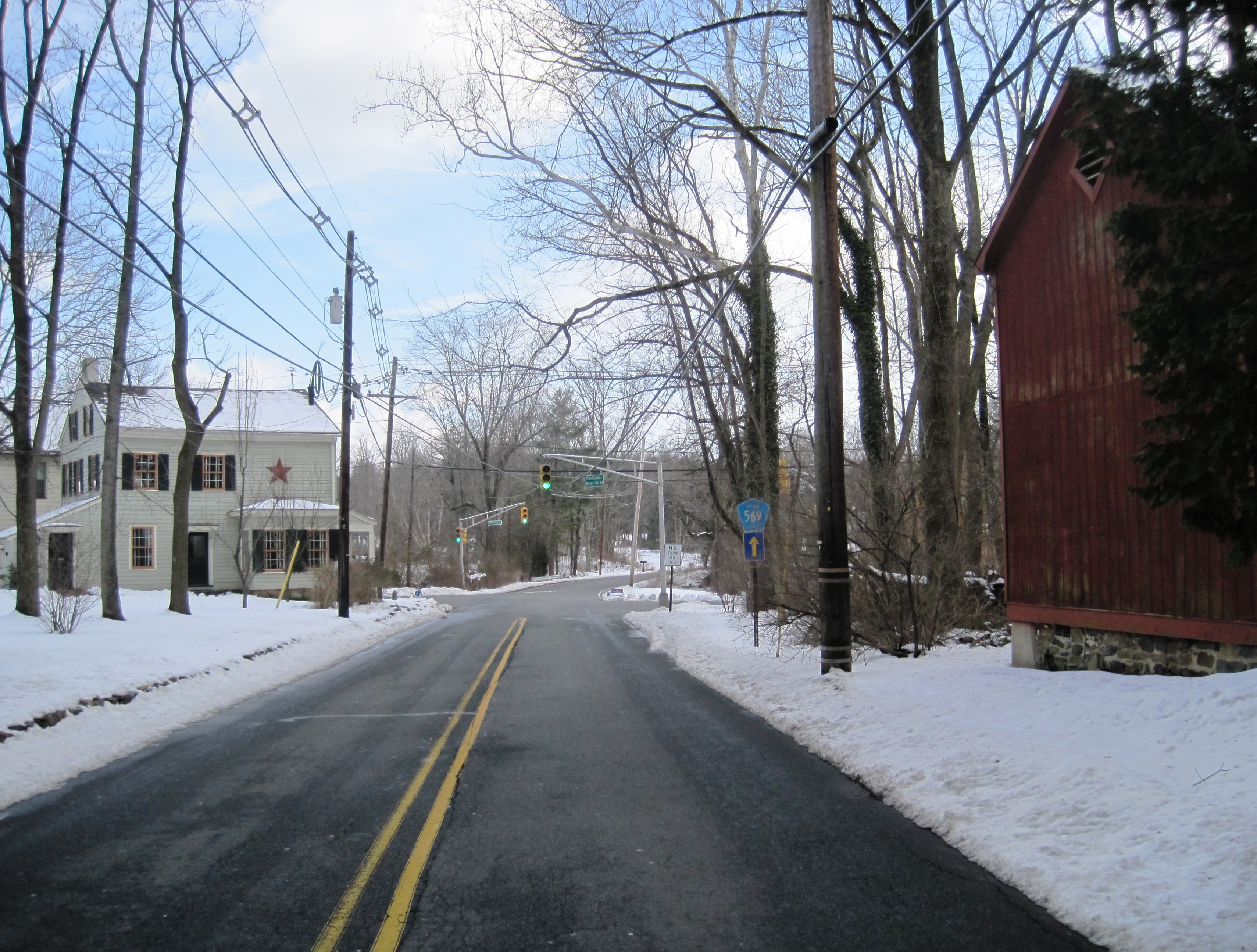 Photo of the intersection of County Route 569 (Carter Road), Pennington-Rocky Hill Road, and Cherry Valley Road in an unincorporated section of Hopewell Township, Mercer County, New Jersey called Mount Rose.